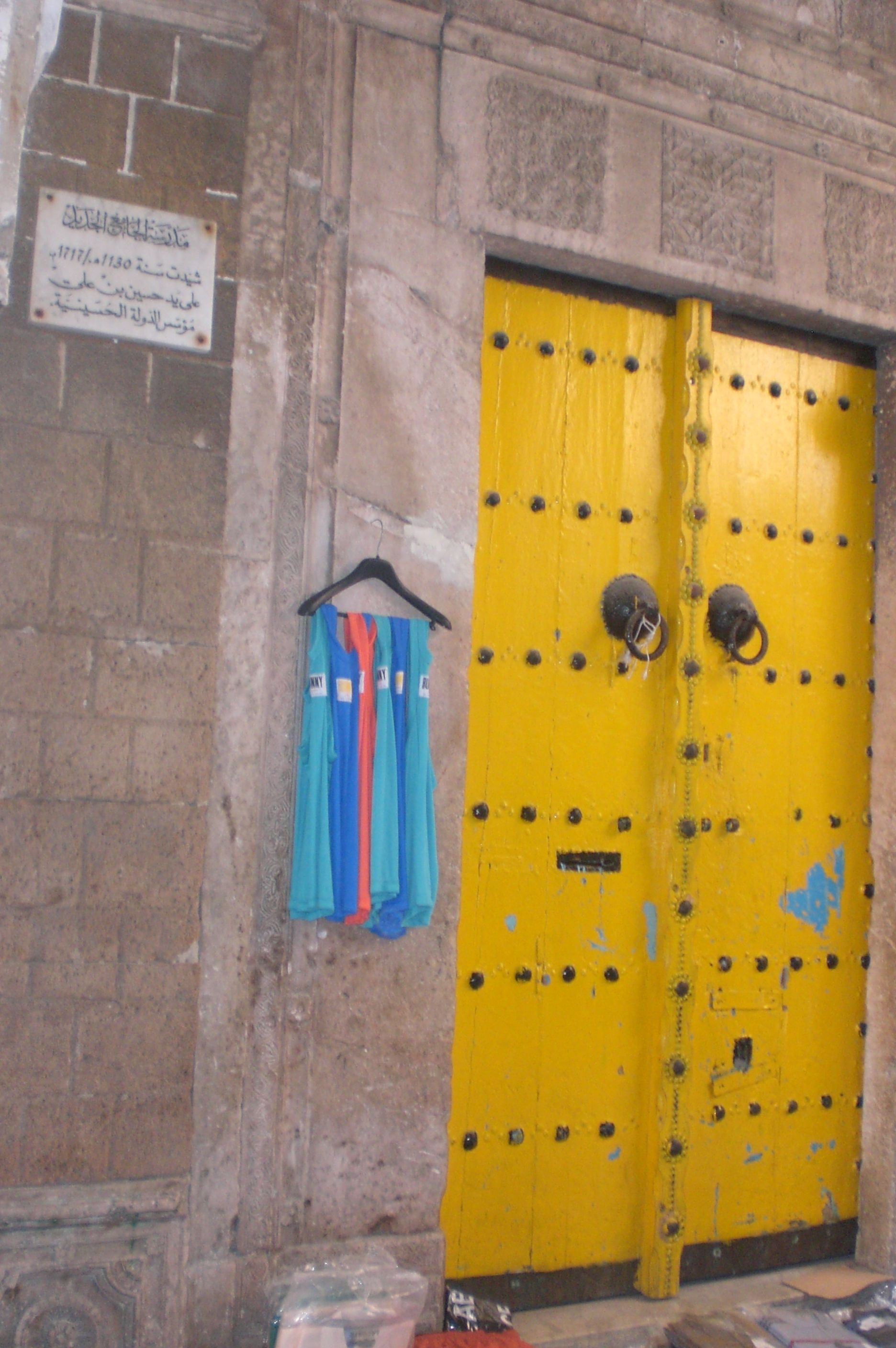 The Jama Jedid Medersa